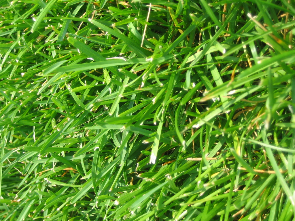 A closeup of some nice green grass growing on the Hudson Riverfront. The Original is here